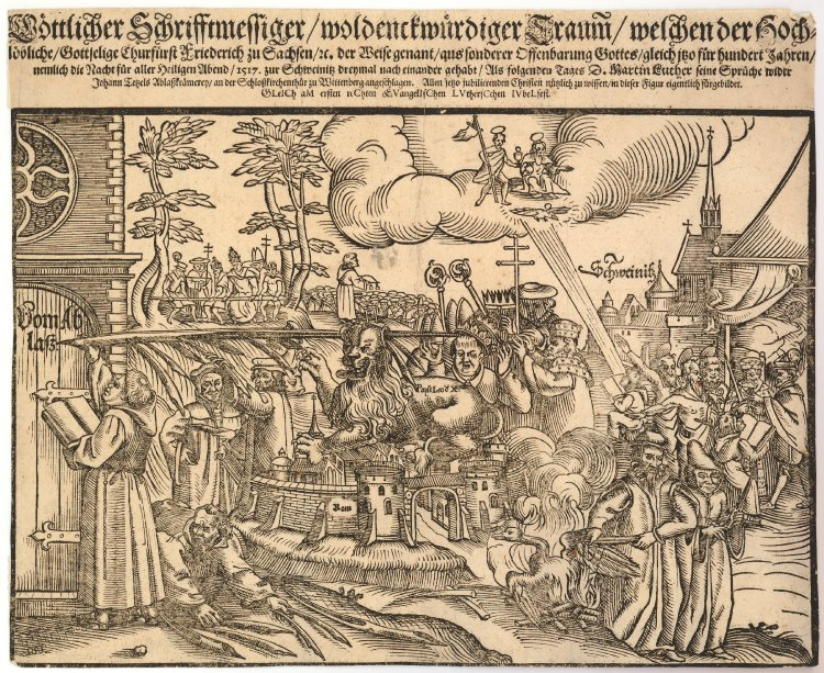 A broadside on the centenary of the German Reformation and a prophetic dream of Friedrich III of Saxony on Luther's posting of the 95 Theses in Wittenberg; with a woodcut showing on the left Martin Luther writing with a large pen on a church door, the end of his pen poking through the ears of a lion, knocking off the tiara of Pope Leo X; with letterpress title, but wanting letterpress text in German and Latin.